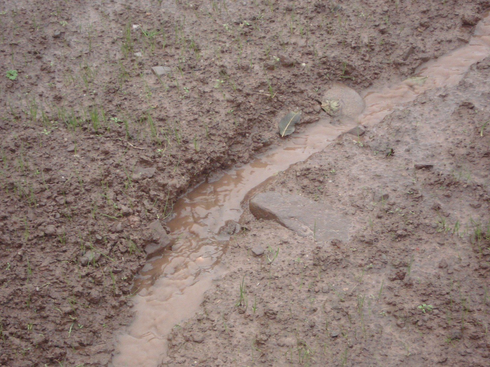 Close-up of an eroding rill from Tyrone, Ireland. To be used in rill